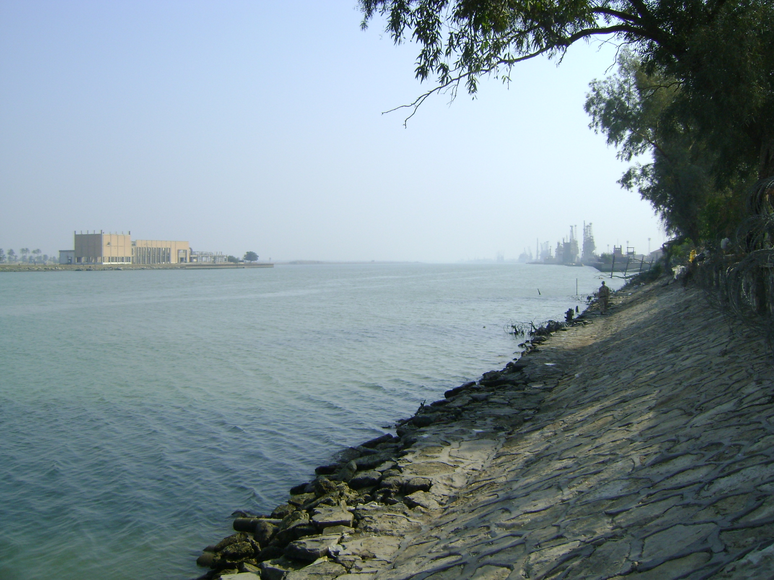 A view of Shatt Al-Arab from the northern part of Basra city. The building in the middle is in Sindibad Island. The palm trees further left from that are on the opposite side of the river in Al-Jibasi area.